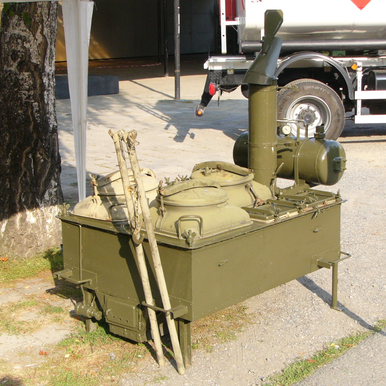 Czech field kitchen PK-24